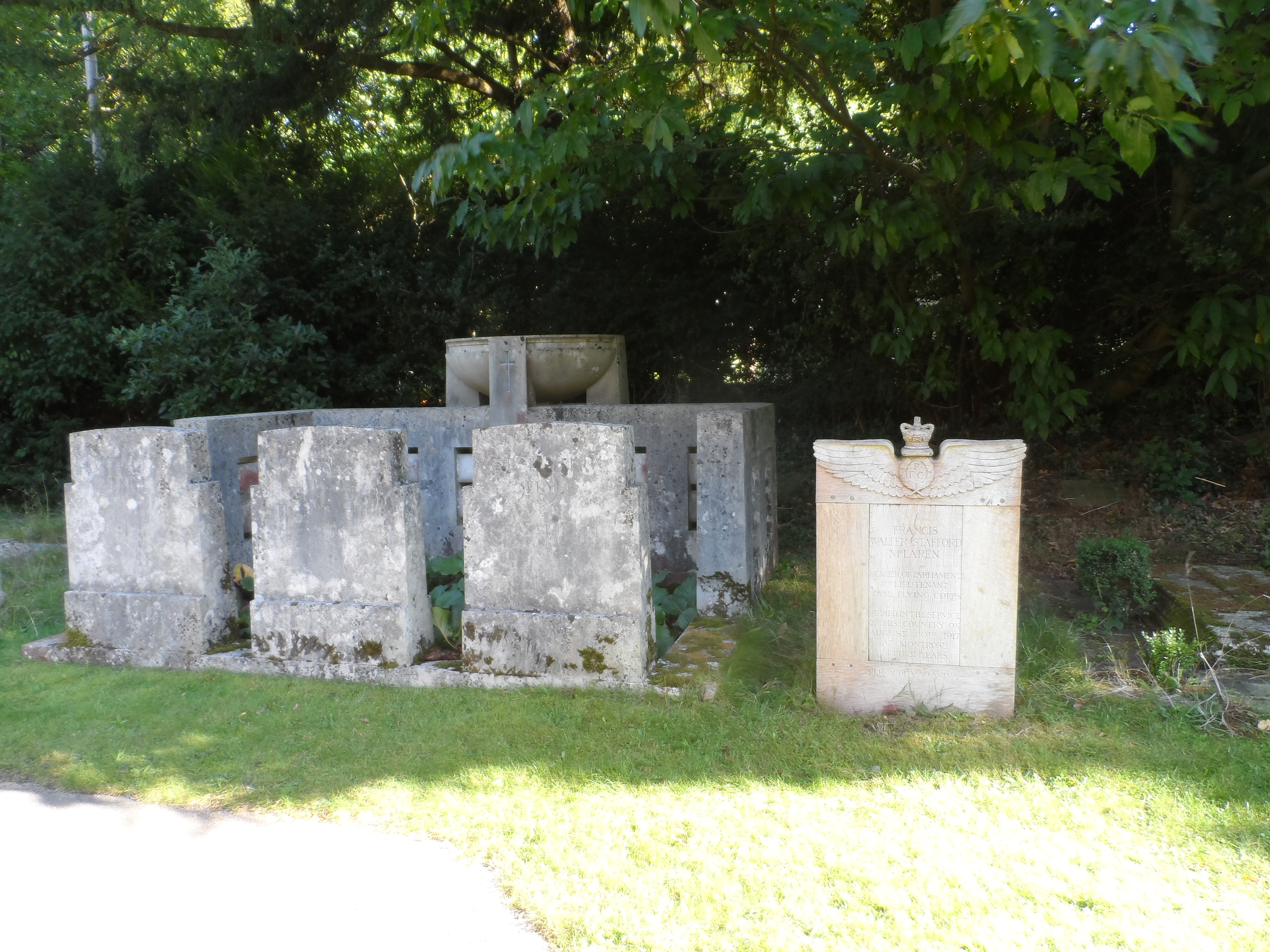 Jekyll family headstones and memorial and McLaren headstone and memorial in the churchyard at St John the Baptist's church, Busbridge, Surrey, UK. Commemorates Gertrude Jekyll (1843-1932), Agnes Jekyll (1861-1937), Herbert Jekyll (1846-1932) and Francis McLaren (1886-1917) - CWGC casualty details. Designed by Edwin Lutyens (1869-1944).